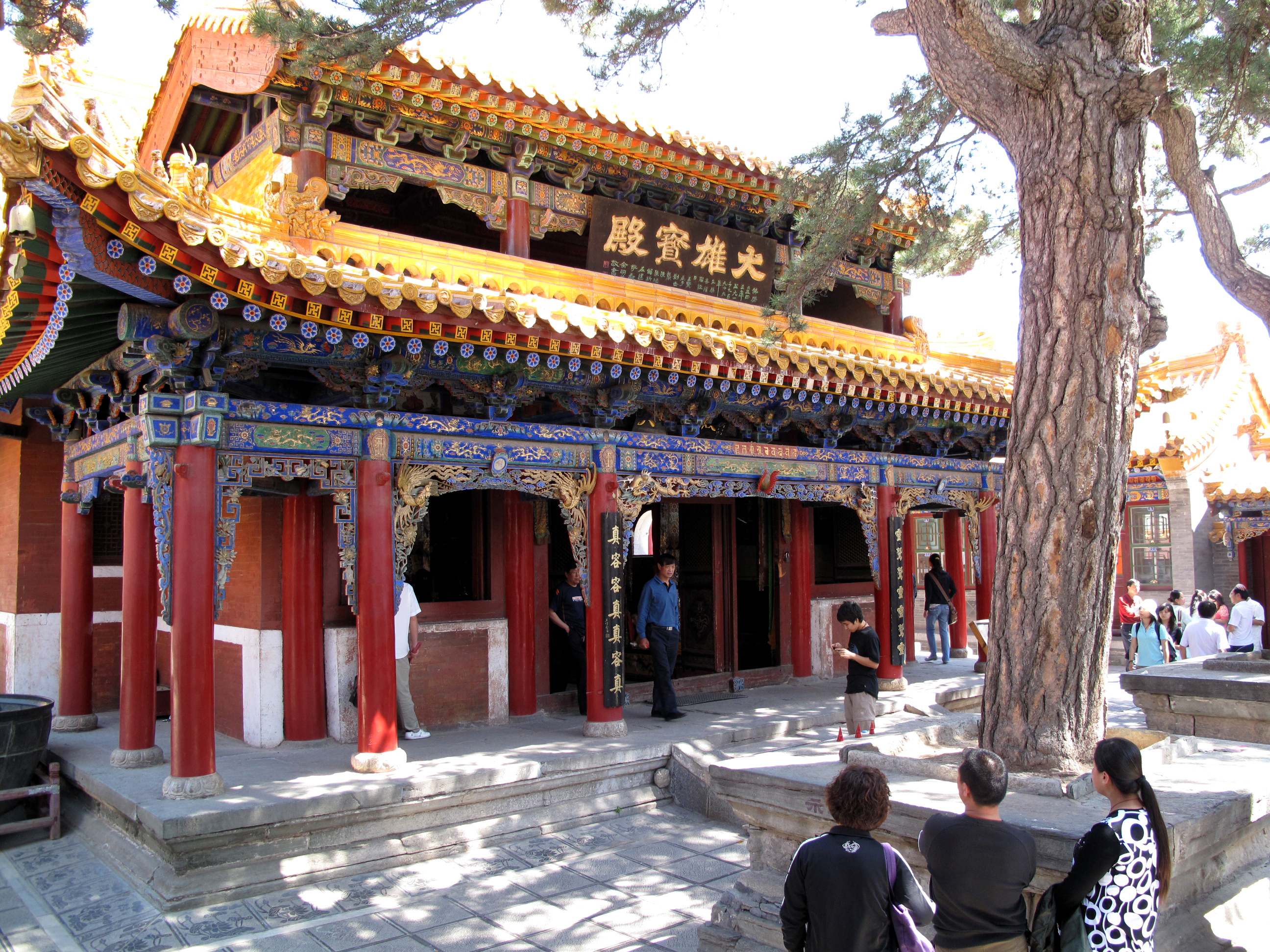 Pusading Si. Wutai Shan, Shanxi Activities in Pusading's Mahavira Hall, seen here, include sutra readings and the playing of Tibetan-style music, the latter an influence from the Qing emperors' favored Tibetan style of Buddhism. The restored hall is decorated and painted in elaborate Qing Dynasty style. "Mahavira," meaning "Great Hero," is one title of the founder of historical Jainism; however, the title is also given to the historical Buddha Shakyamuni. The Mahavira Hall of a Buddhist temple, if it has one, is usually the main hall of the temple, and houses a statue of Shakyamuni.